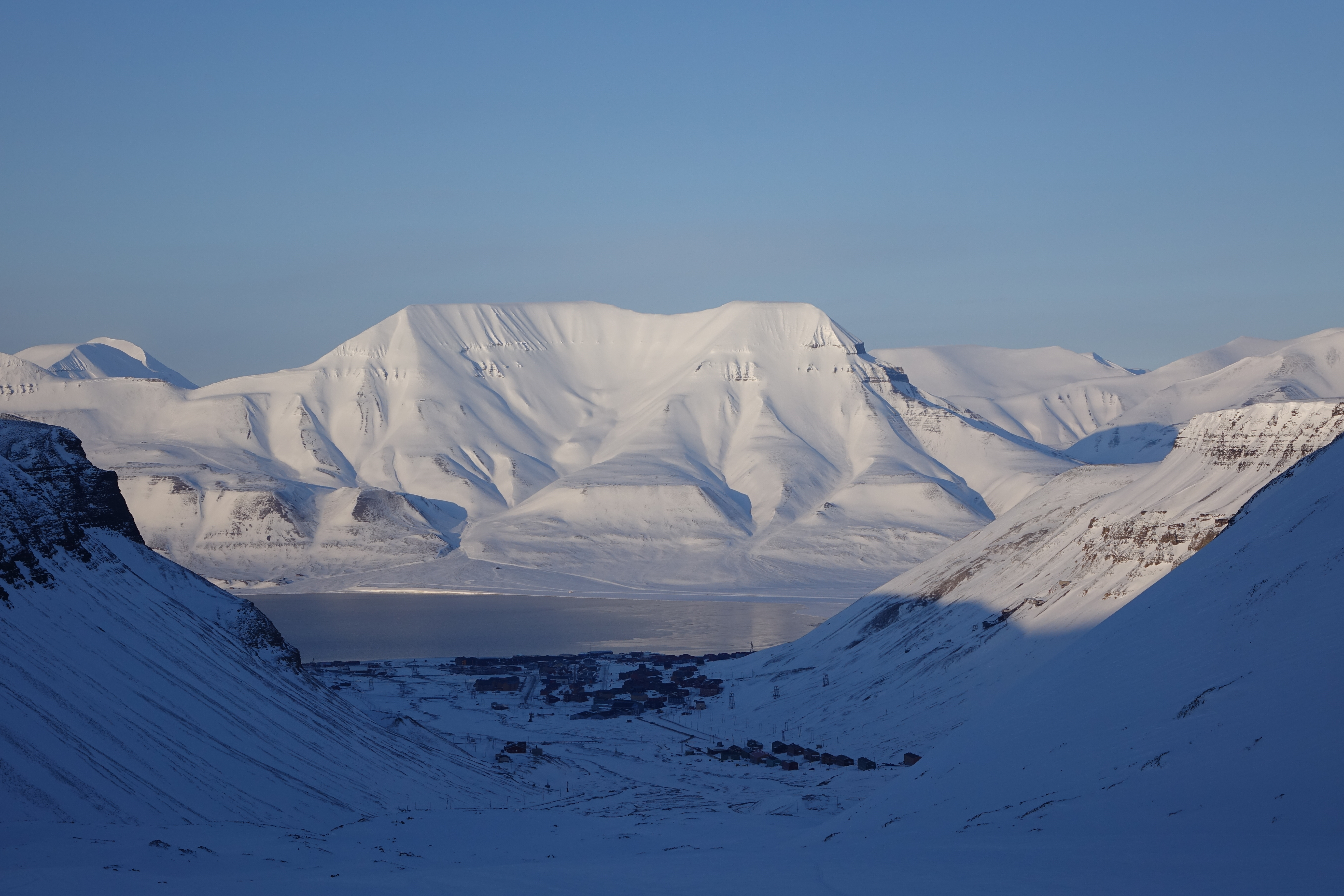 Photo taken in May 2016